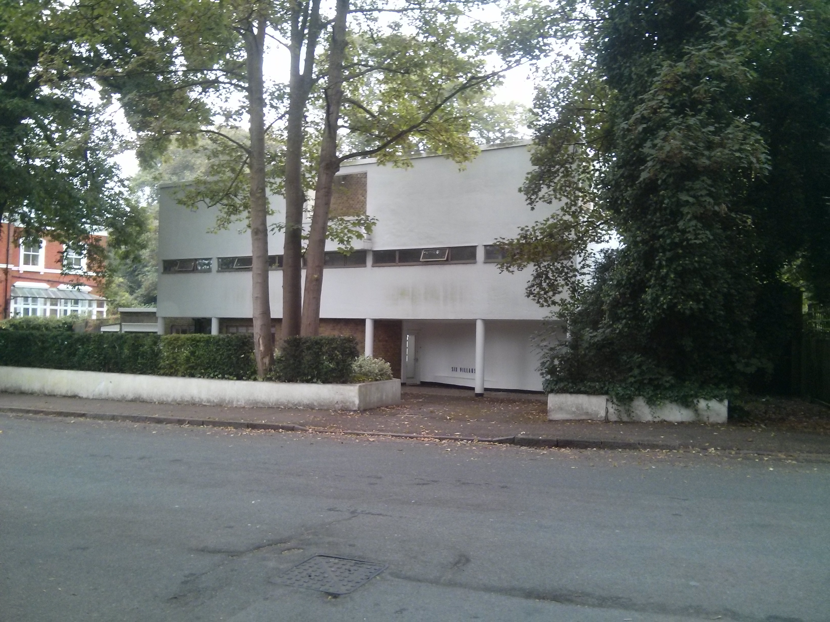 SIX PILLARS Wikidata has entry Q17531291 with data related to this building.